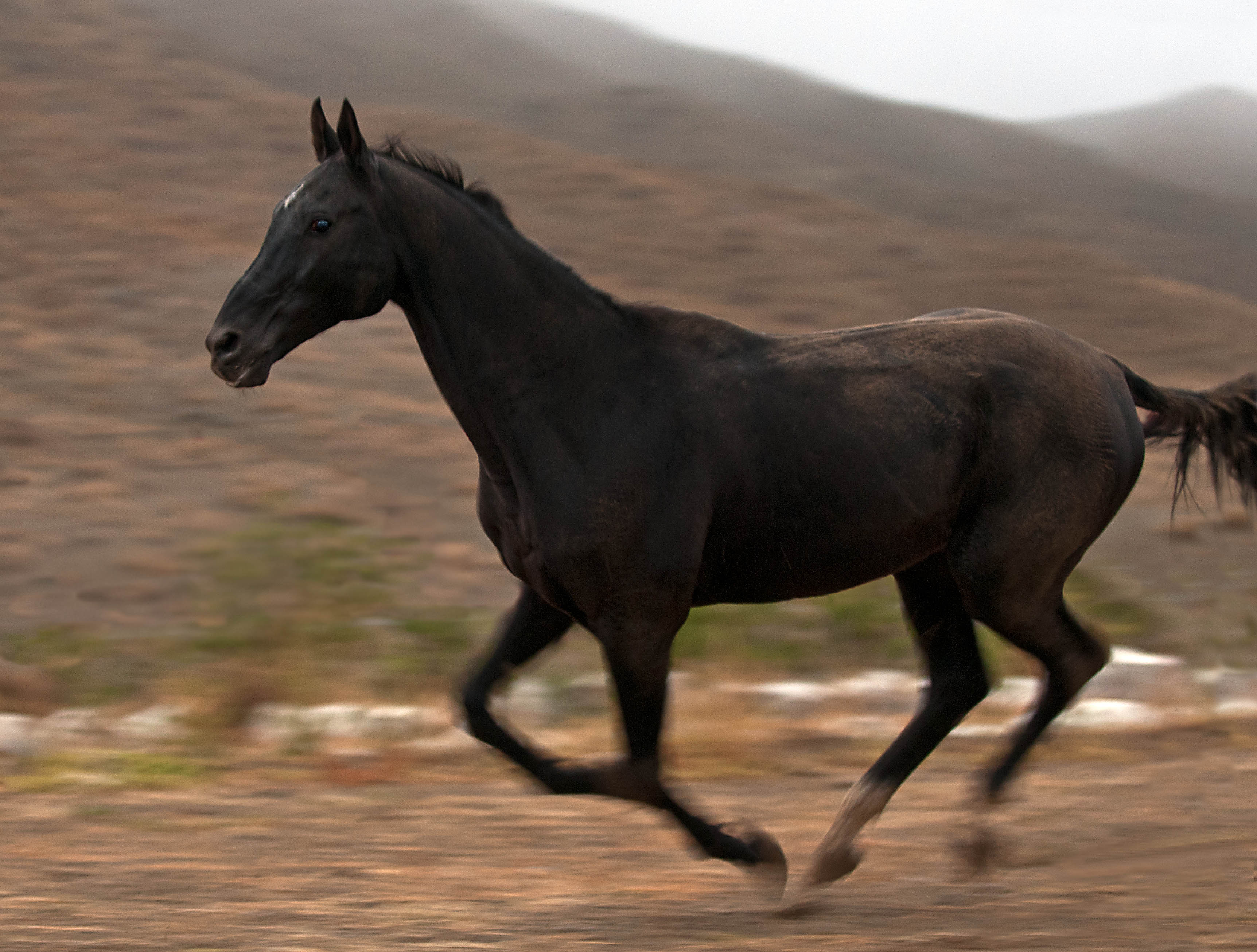 a wonderful visit to an Akhal-Teke studfarm in the mountains of Turkmenistan